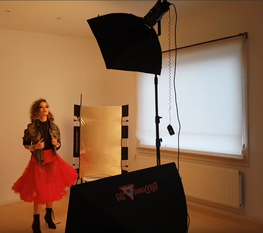 A model recreating 80's Madonna look